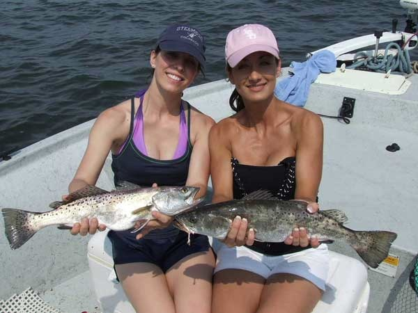 Displaying a good catch. Speckled Trout Fishing at Bayou Guide Service in Houma, Louisiana.